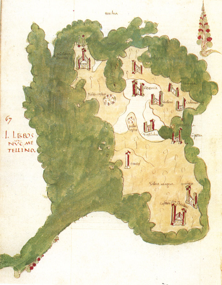 Cristoforo Buondelmonti, Liber Insularum Archipelagi (1420), Lesbos island, Aegean Sea